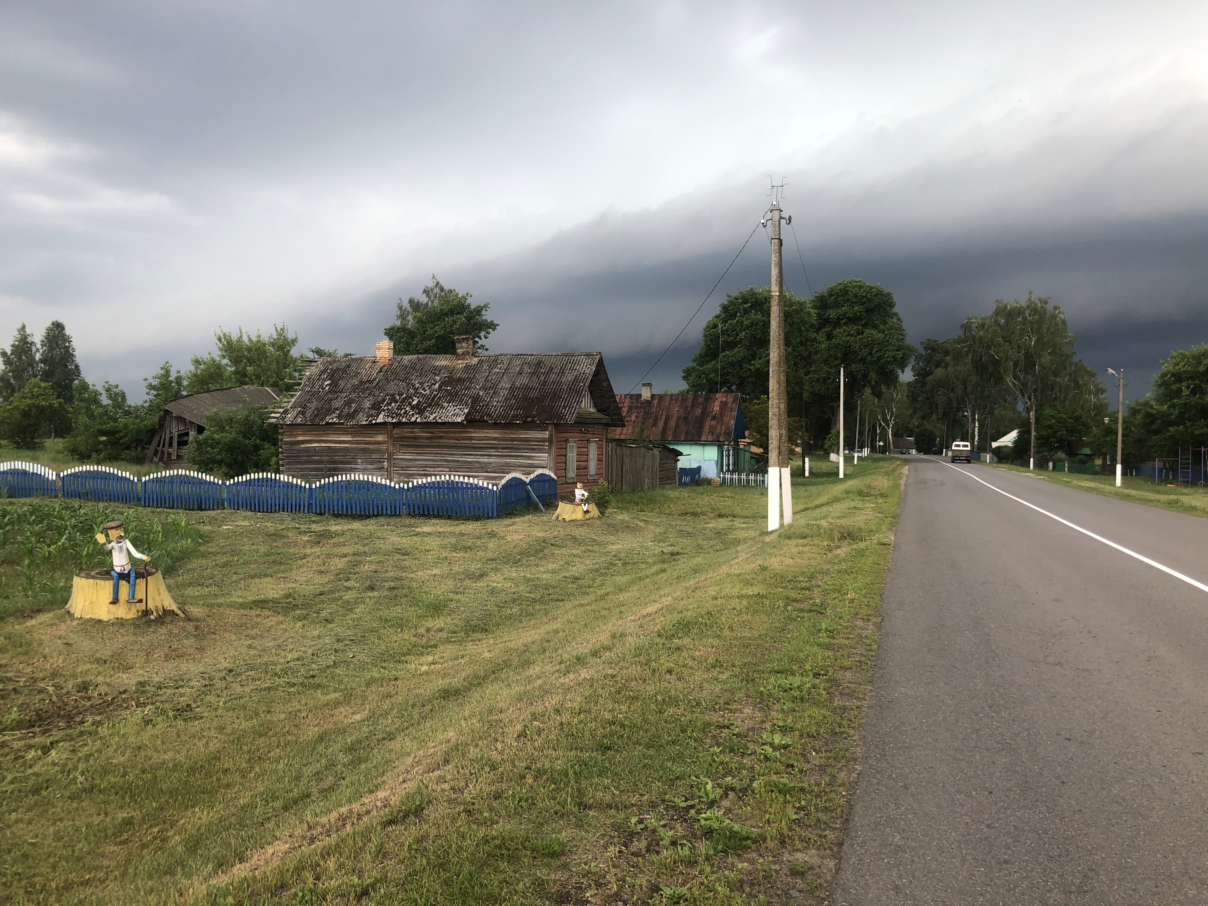 Senovec 2 Buda-Kashelevskiy Region 2020 july